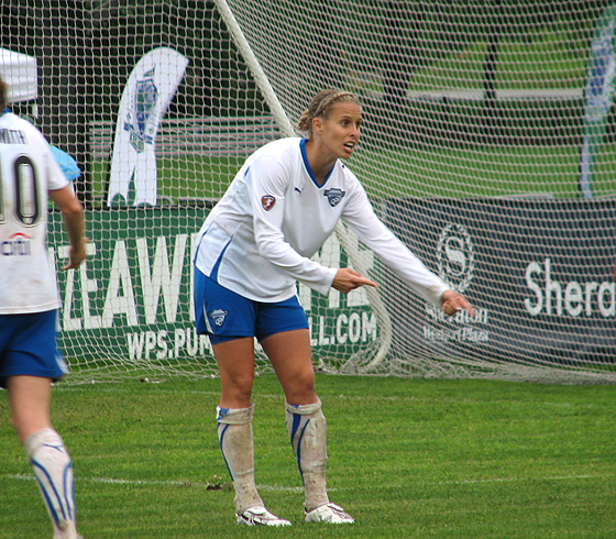 Leslie Osborne of the (WPS) Womens Professional Soccer Club, Boston Breakers.